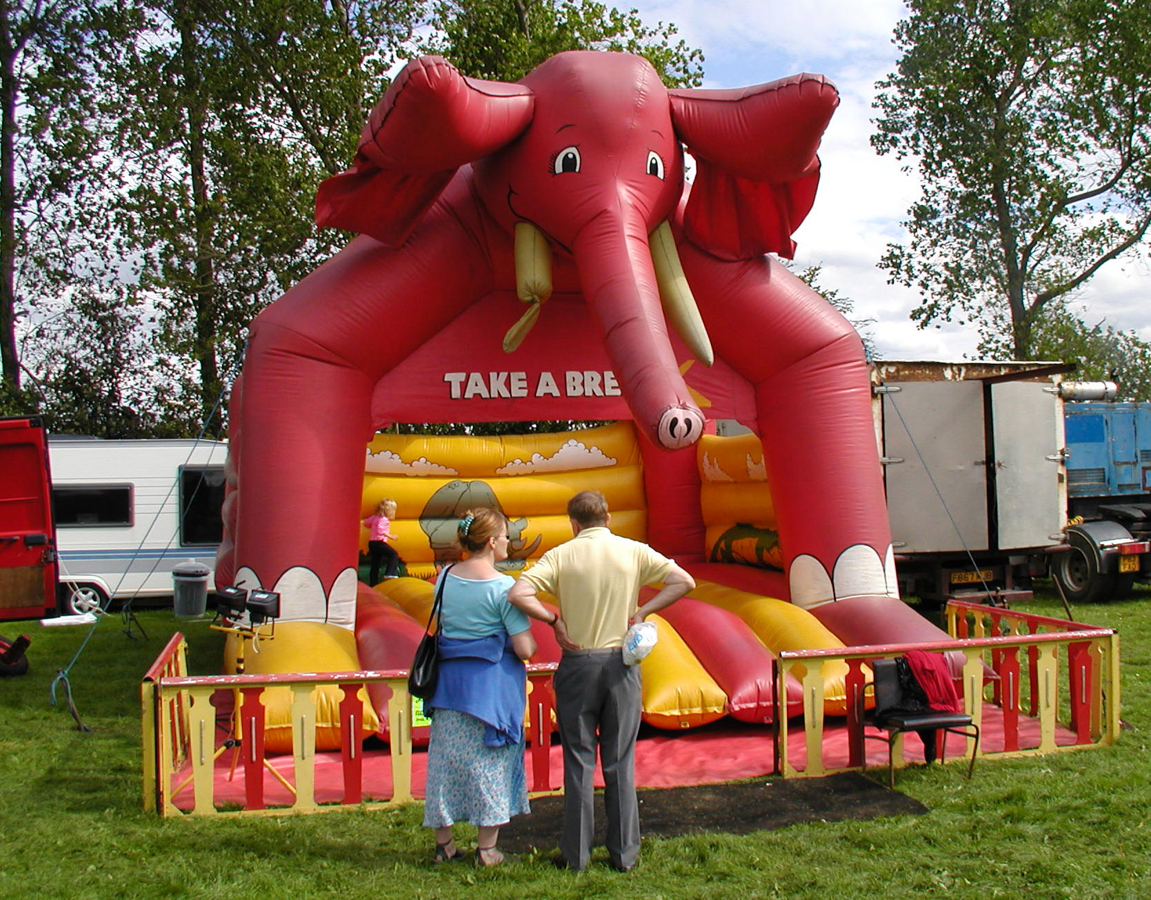 A bouncy castle at Hawkesbury Show, Hawkesbury, near Bristol, England. Photographed by Adrian Pingstone in August 2004 and placed in the public domain.